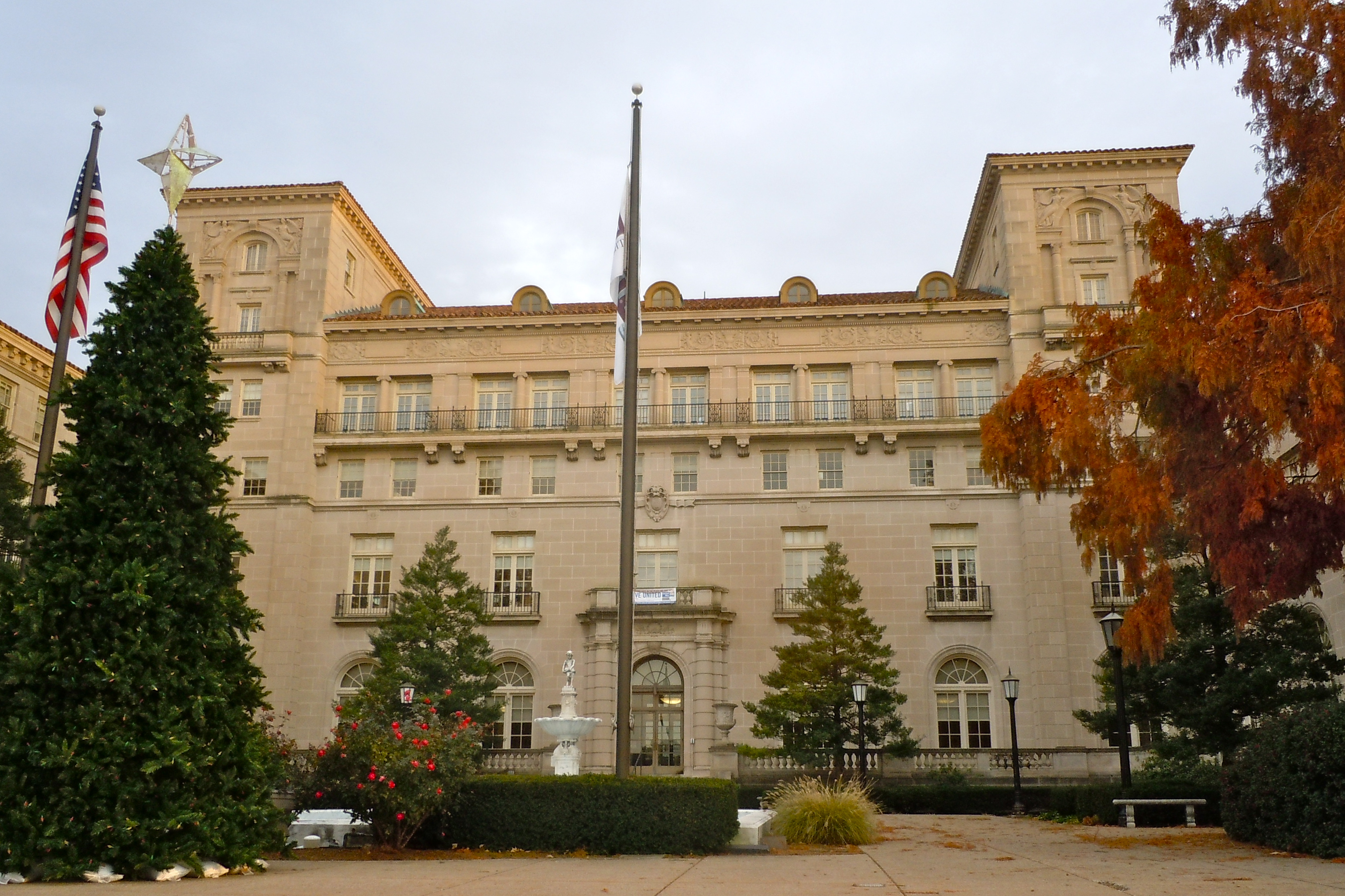 Hershey Community Center Building — at 2 Chocolate Avenue (corner at Cocoa Street), Hershey, Dauphin County, Pennsylvania. Originally built by Milton S. Hershey as a community center for the workers at his chocolate factory (pretty much across the street), it now houses the marketing department of the company. On the NRHP since October 15, 1980.